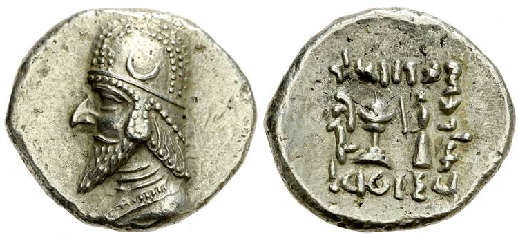 Silver drachma of king Darius II ruling the local kingdom of Persis (actual province of Fars, Iran), the 1st century CE, during the Partian Era. Obverse shows the king wearing his tiara with a crescent and star symbol, earflap, and decorated with precious stones. Obverse shows a king facing a fire altar & holding a scepter, with an inscription in Aramaic “d’ryw mlk”brh wtprdt mlk’” "Darius the King, son of Vadfradad the King").